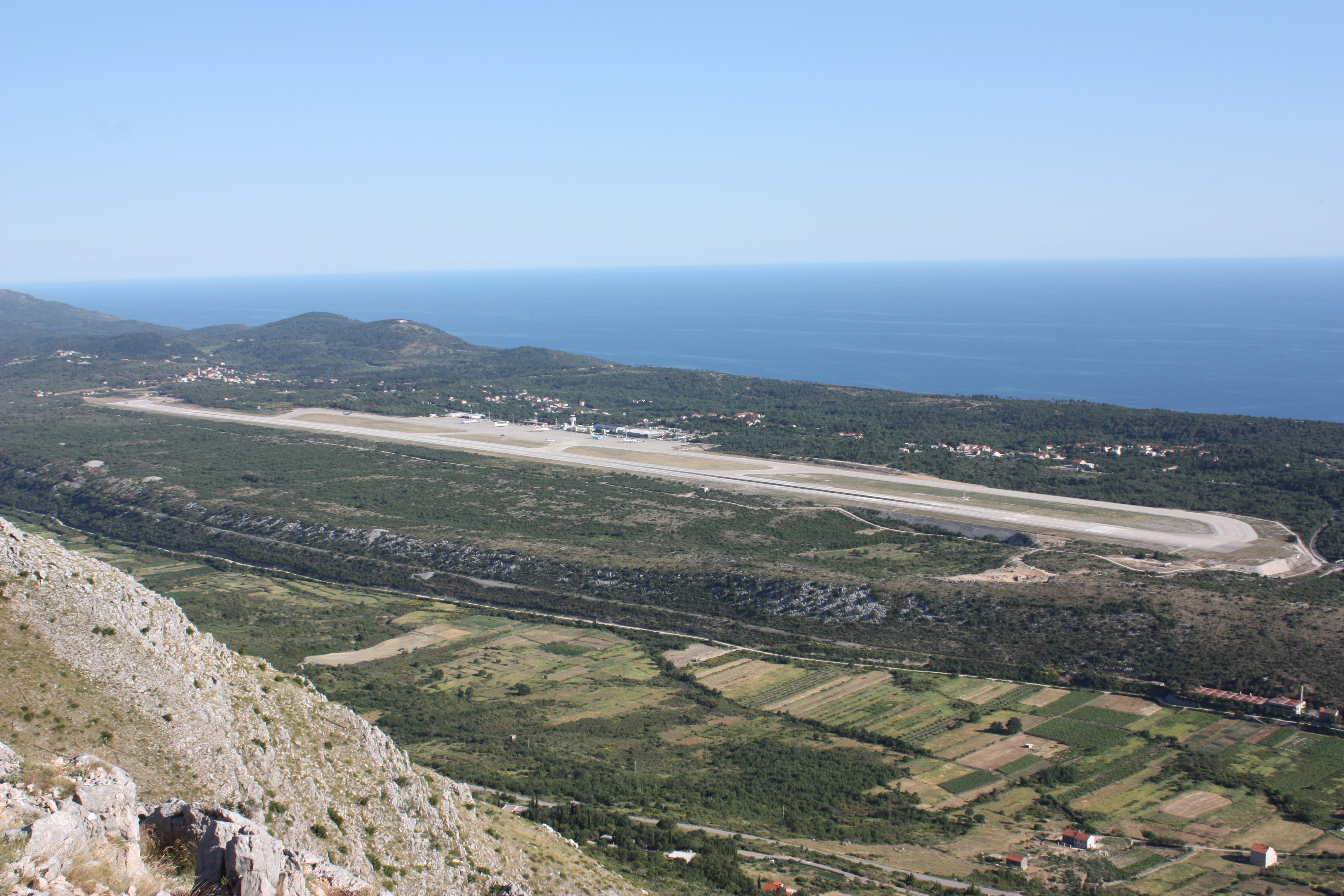 Dubrovnik airport runway